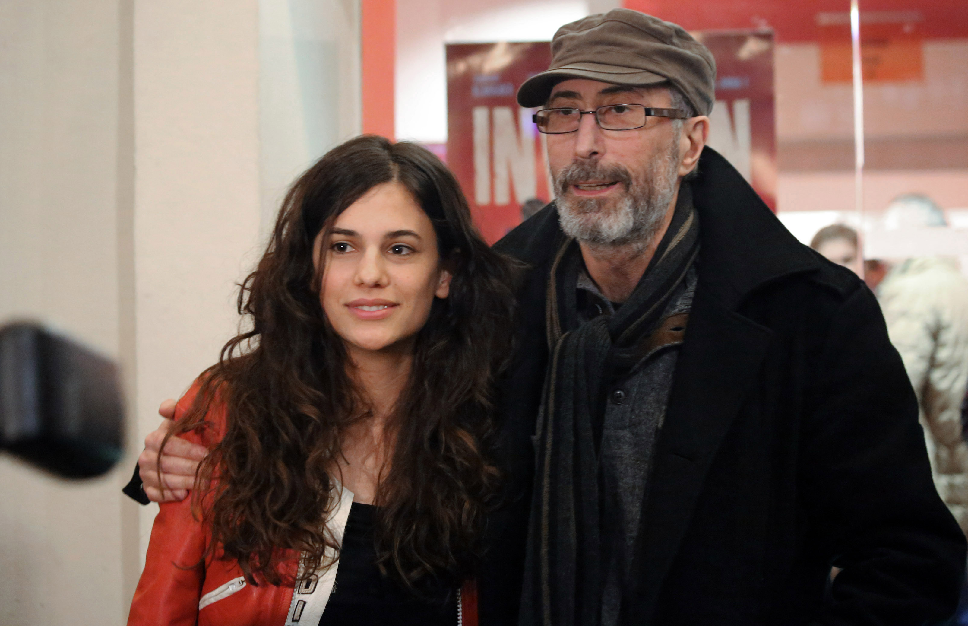 Anna F. and Dito Tsintsadze at the Austrian premiere of Invasion at Vienna Künstlerhaus (Vienna, Austria).